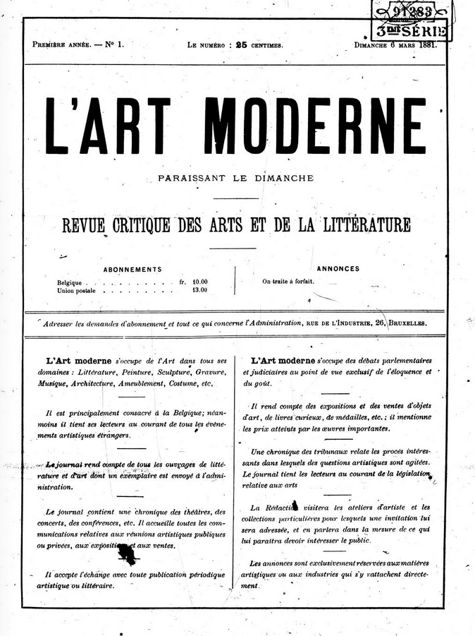 Front cover page of L'Art moderne, weekly periodical published in Bruxelles, issue 01, March 6, 1881.